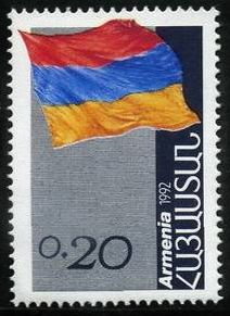 Stamp of Armenia